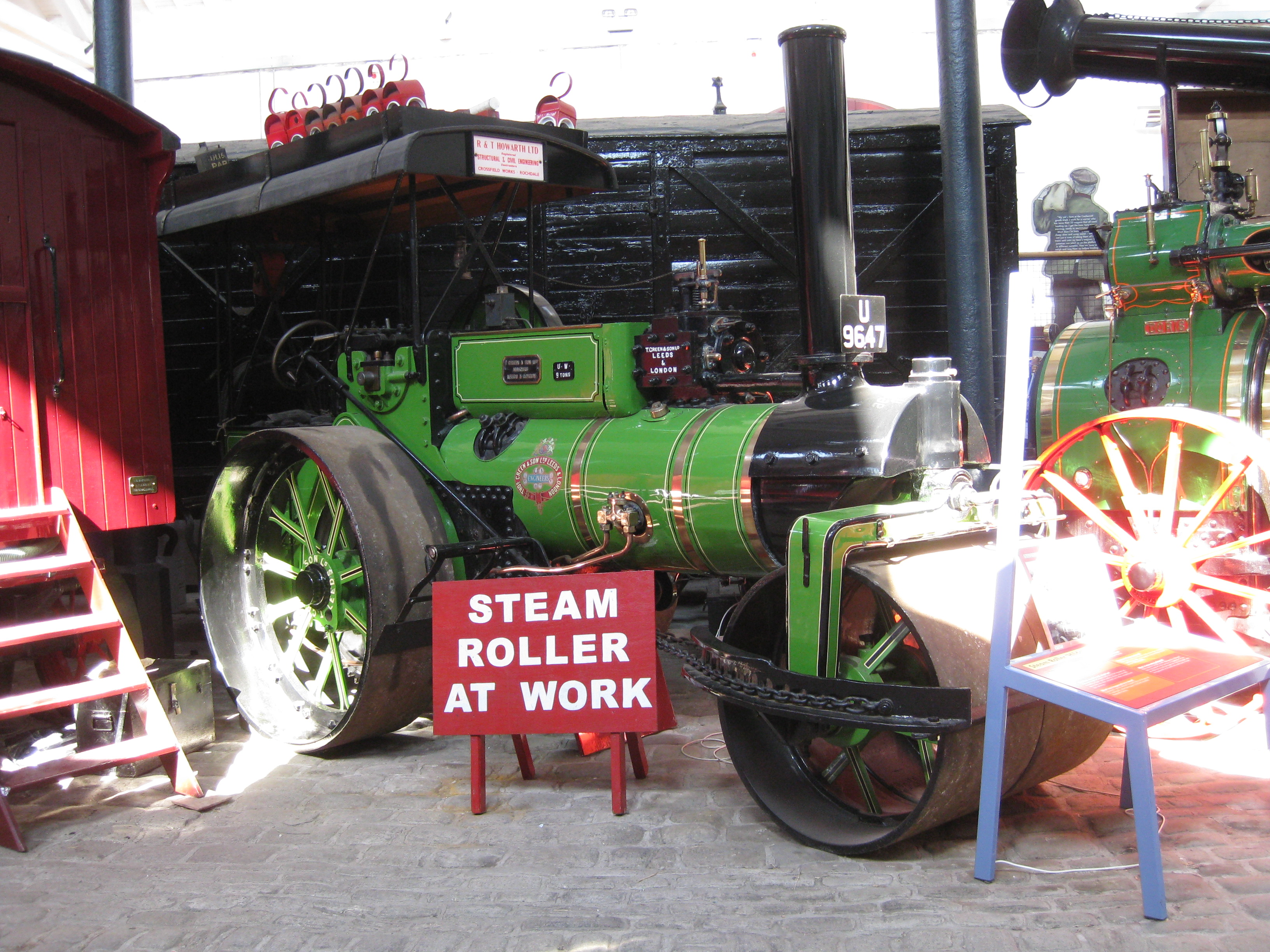 Steam roller "Hilda", built 1921 by Thomas Green and Son, of Leeds and London. Now in the Bury Transport Museum